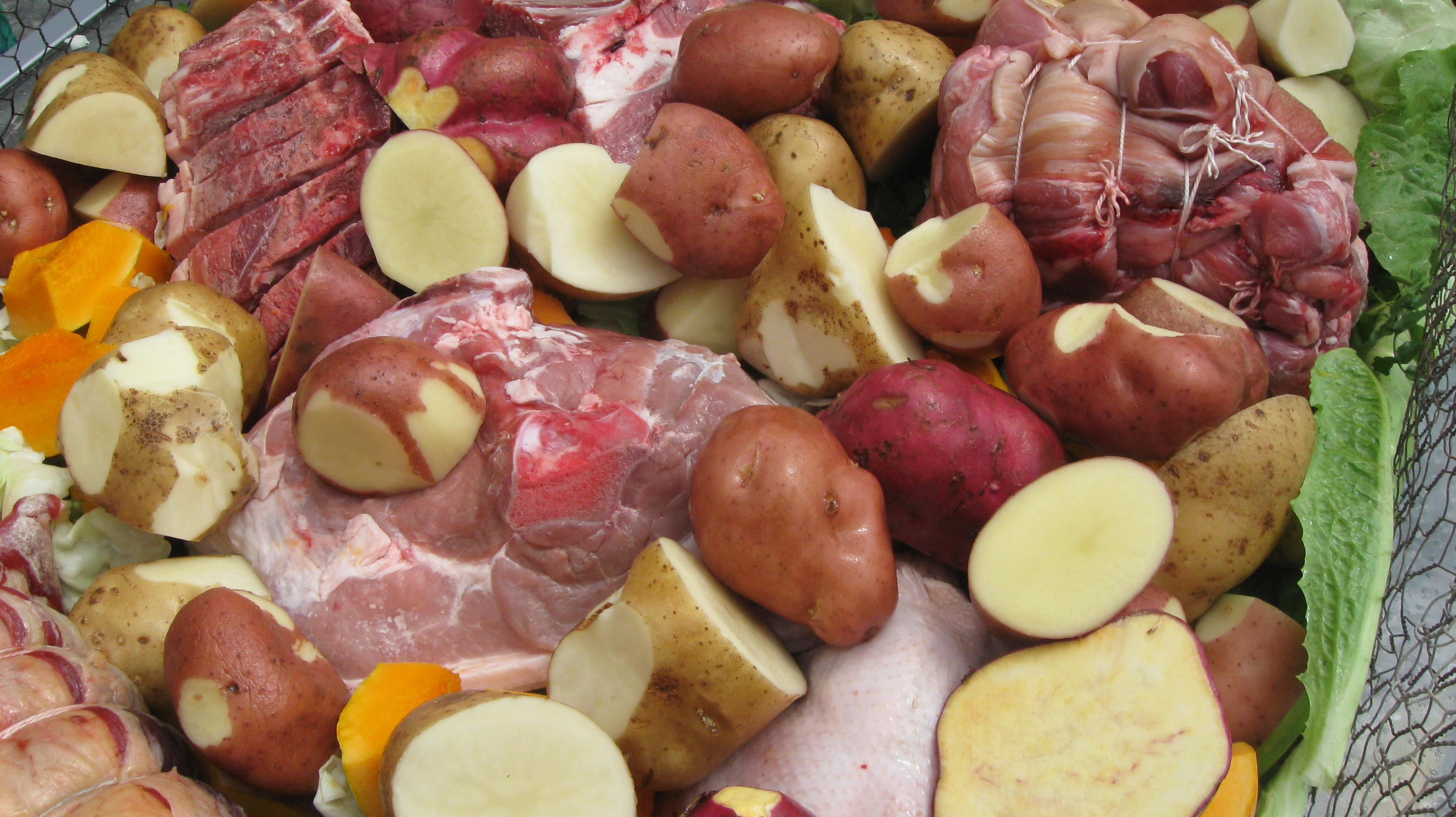 Ingredients using for preparation on the hangi.